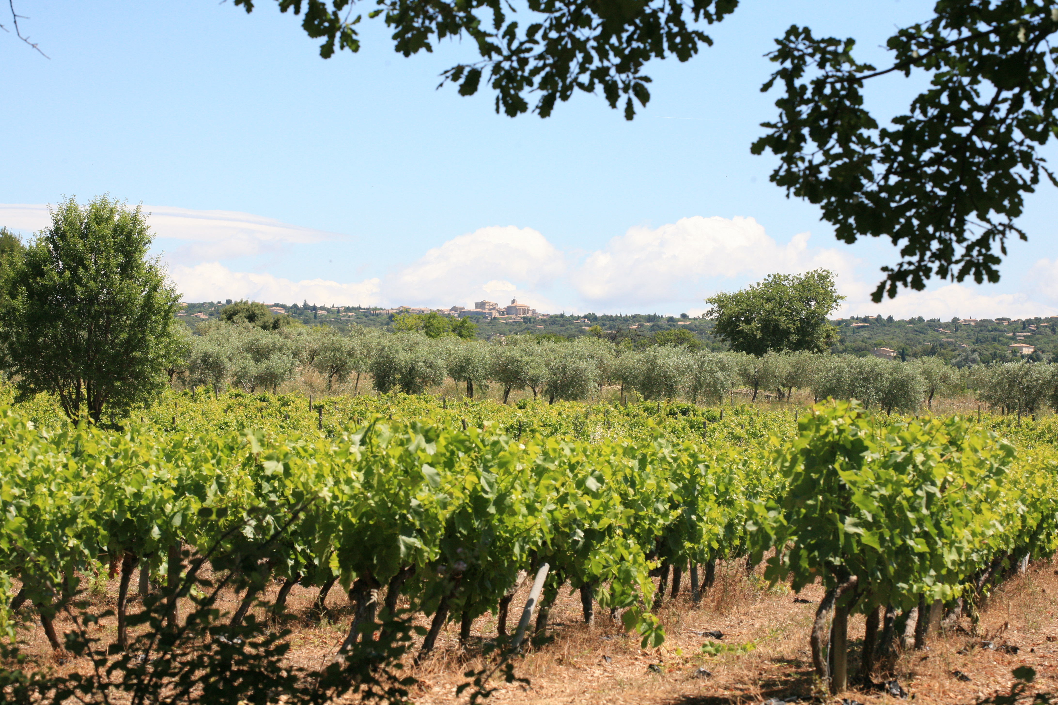 view of Gordes and its ground including vignard (Ventoux AOC) and olive orchard, Luberon area, hills of the "Monts de Vaucluse", France.